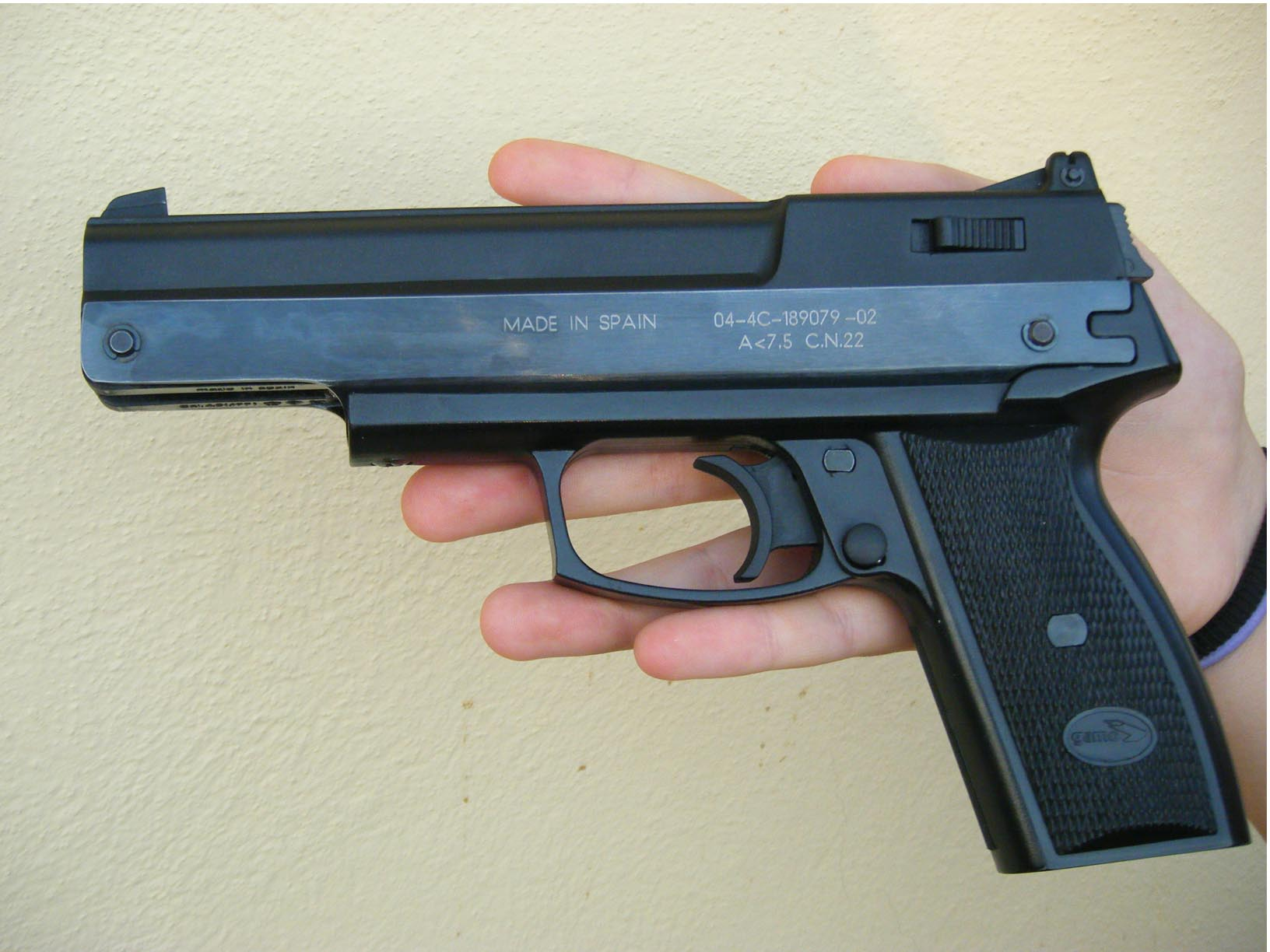 Air gun